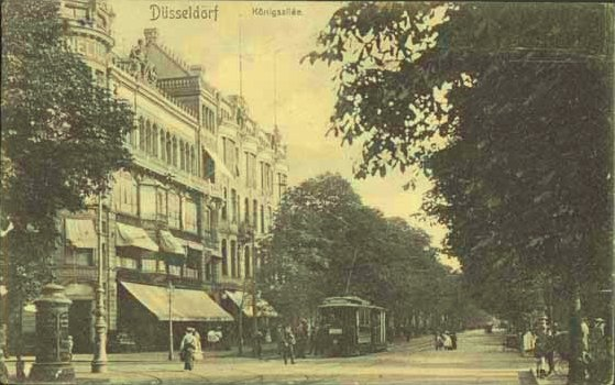 Düsseldorf, Wehling’sche Geschäftsgruppe Königsallee 9 und 11, erbaut von 1901 bis 1902 von den Architekten Gottfried Wehling und Aloys Ludwig.jpg